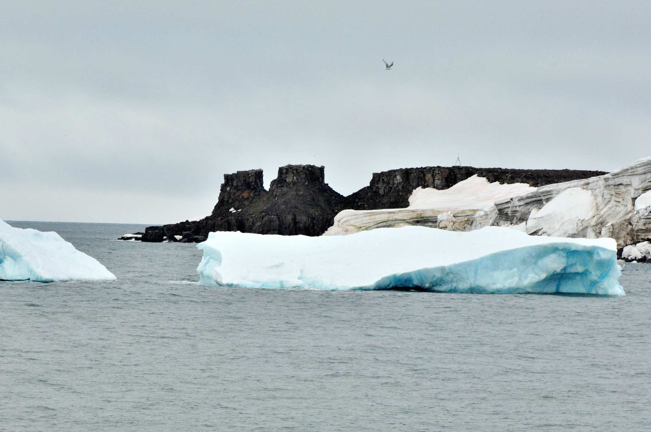 Cape Stolbowoi (Northwestern tip of Rudolf Island, Franz Josef Archipelago, Russia; 81°45‘22’’N, 57°57‘32’’E)